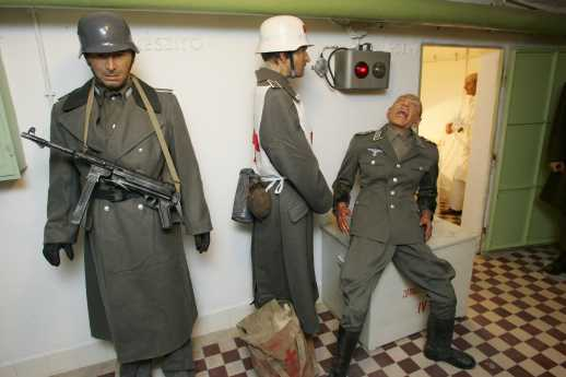 Hospital in the Rock, Surgeons